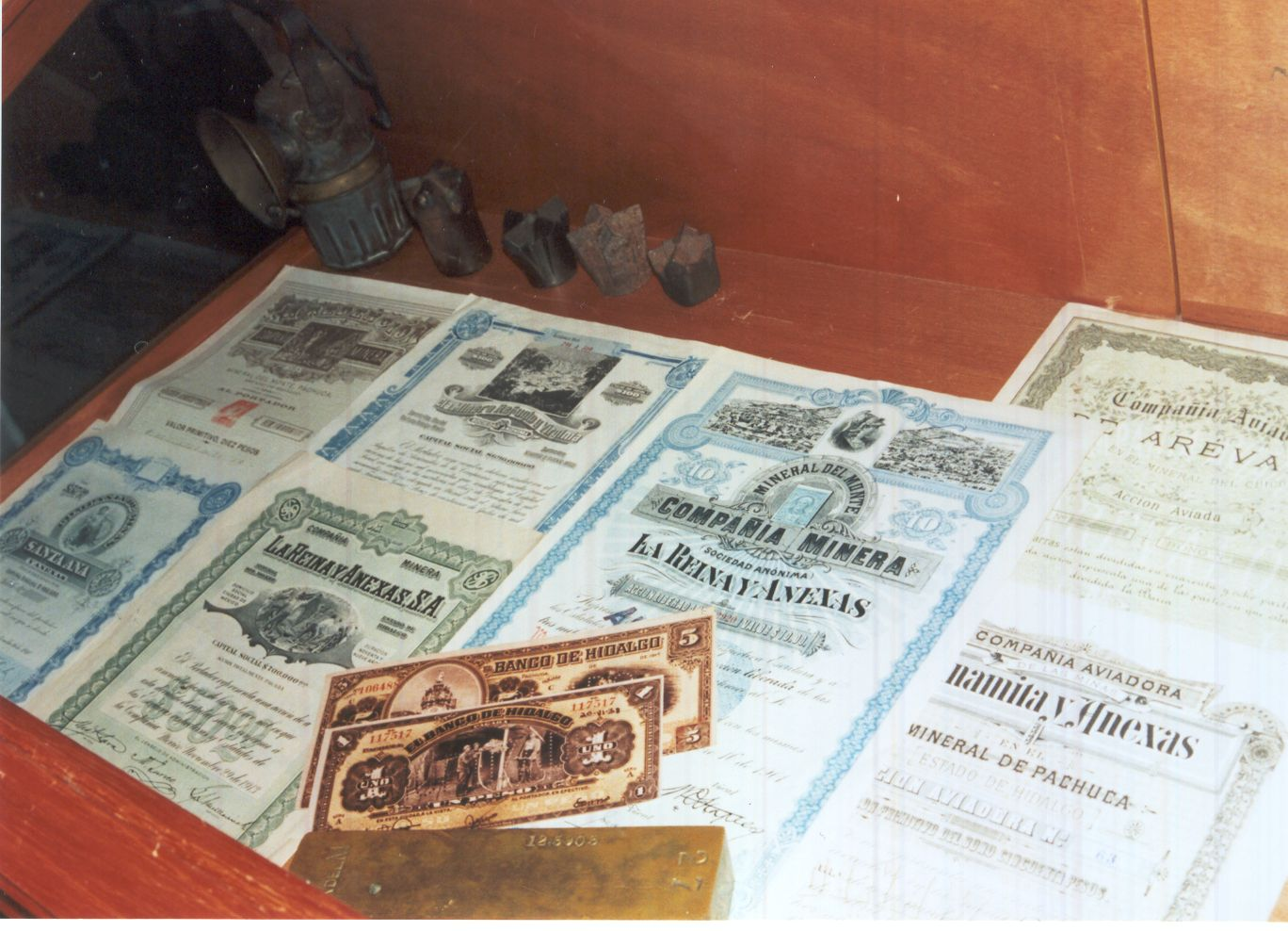 Stock certificates and money printed by local mining operations around Pachucha Hidalgo state, Mexico